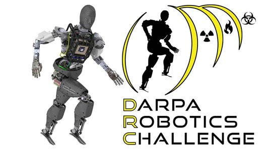 logo Darpa robotics challenge